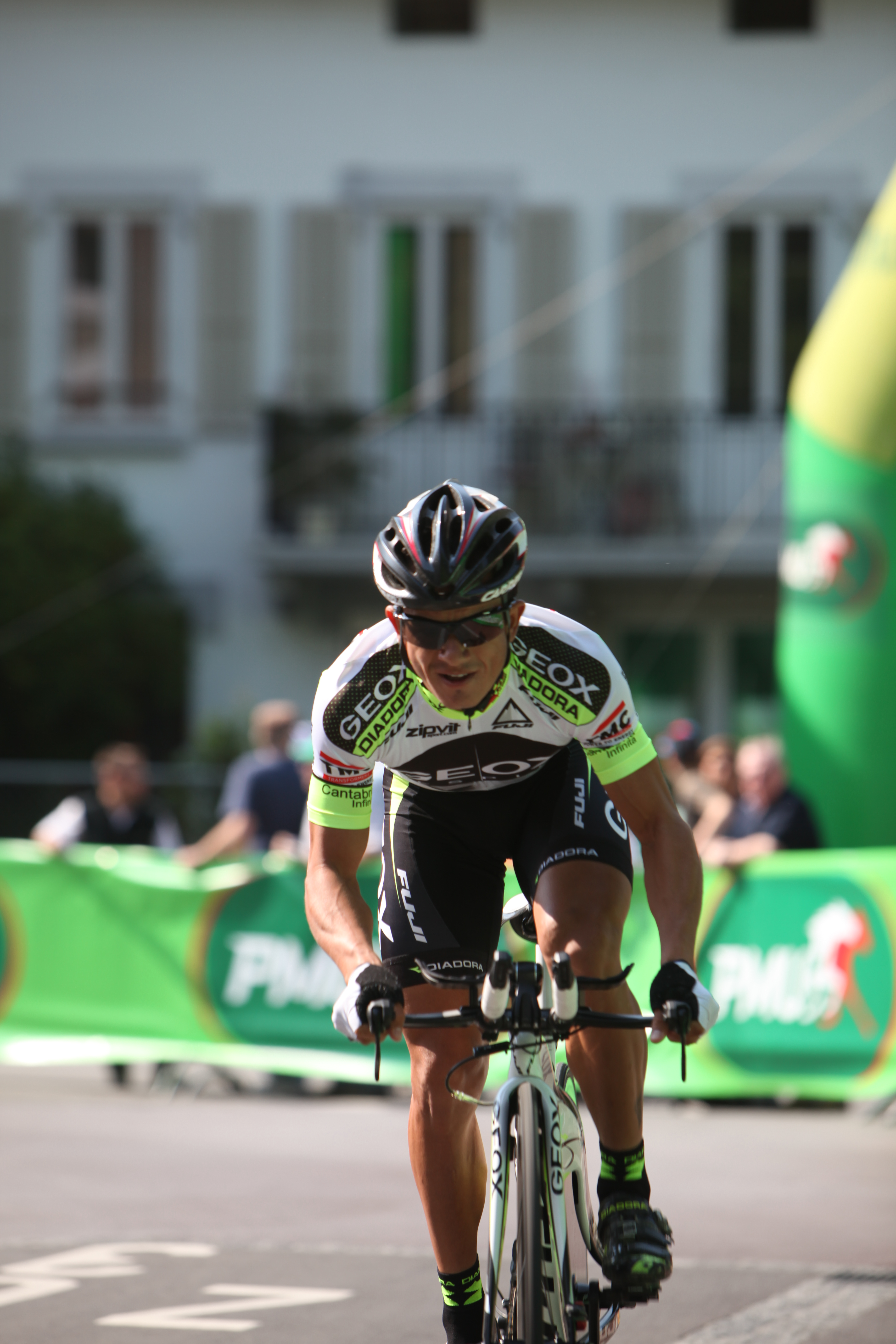 Mauricio Ardila at the prologue of the Tour de Romandie 2011